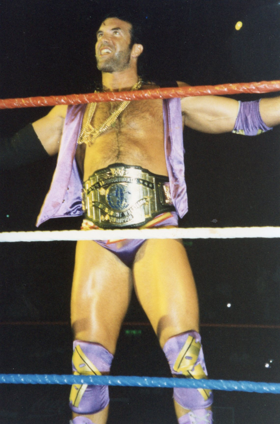 Razor Ramon in the midst of his second WWF Intercontinental Championship reign. Taken September 14, 1994 at the Wembley Arena in London, England.